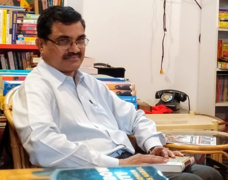 Anand Teltumbde in February 2020, talking about his book, "Hindutva and Dalits" at the Dogears Bookstore, Margao